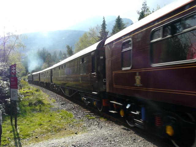 "The Royal Scotsman" train passing Achnashellach station.